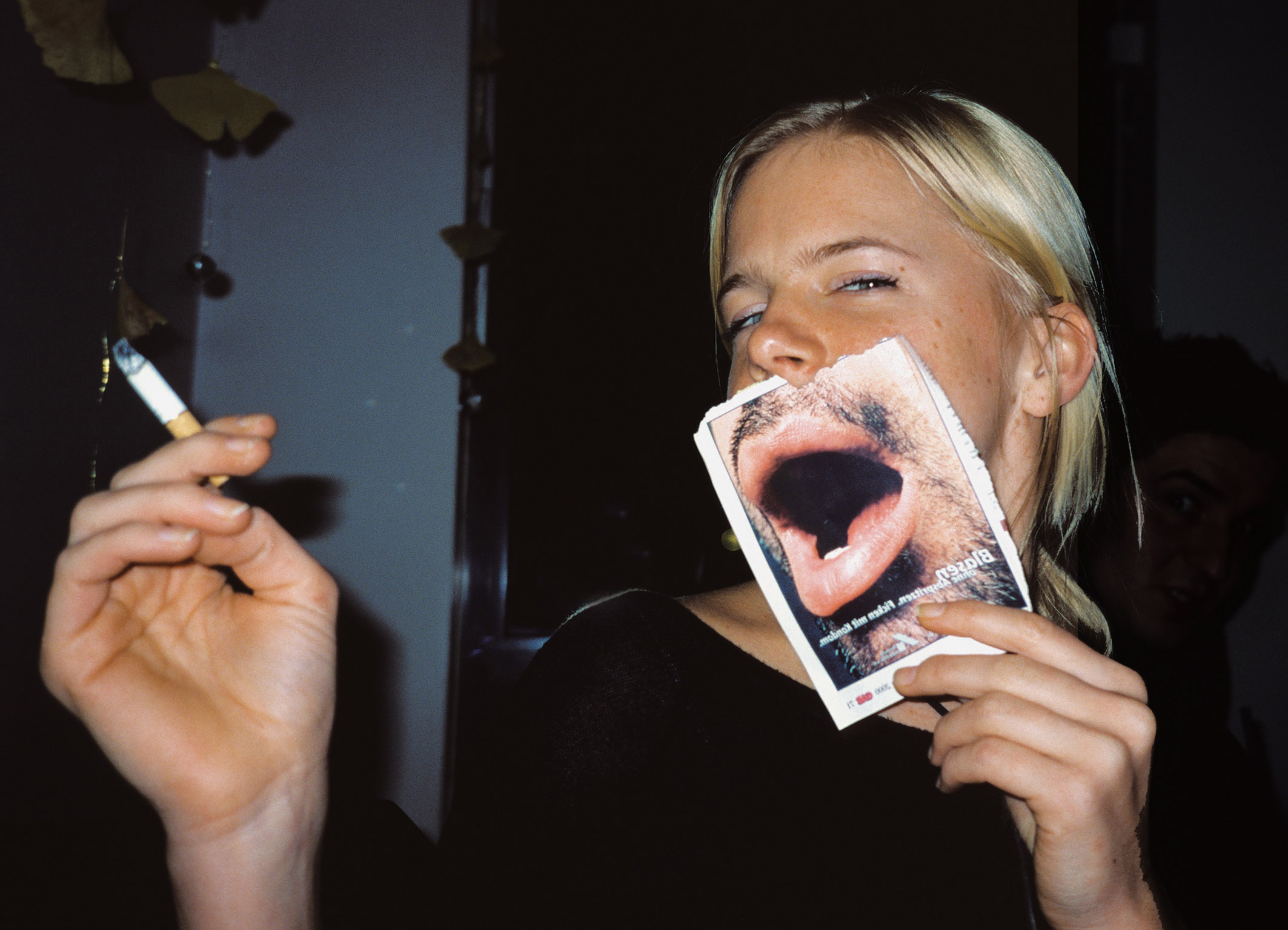 231100-0002 Sandra with Beard, 2000, Photography by Sandra Mann